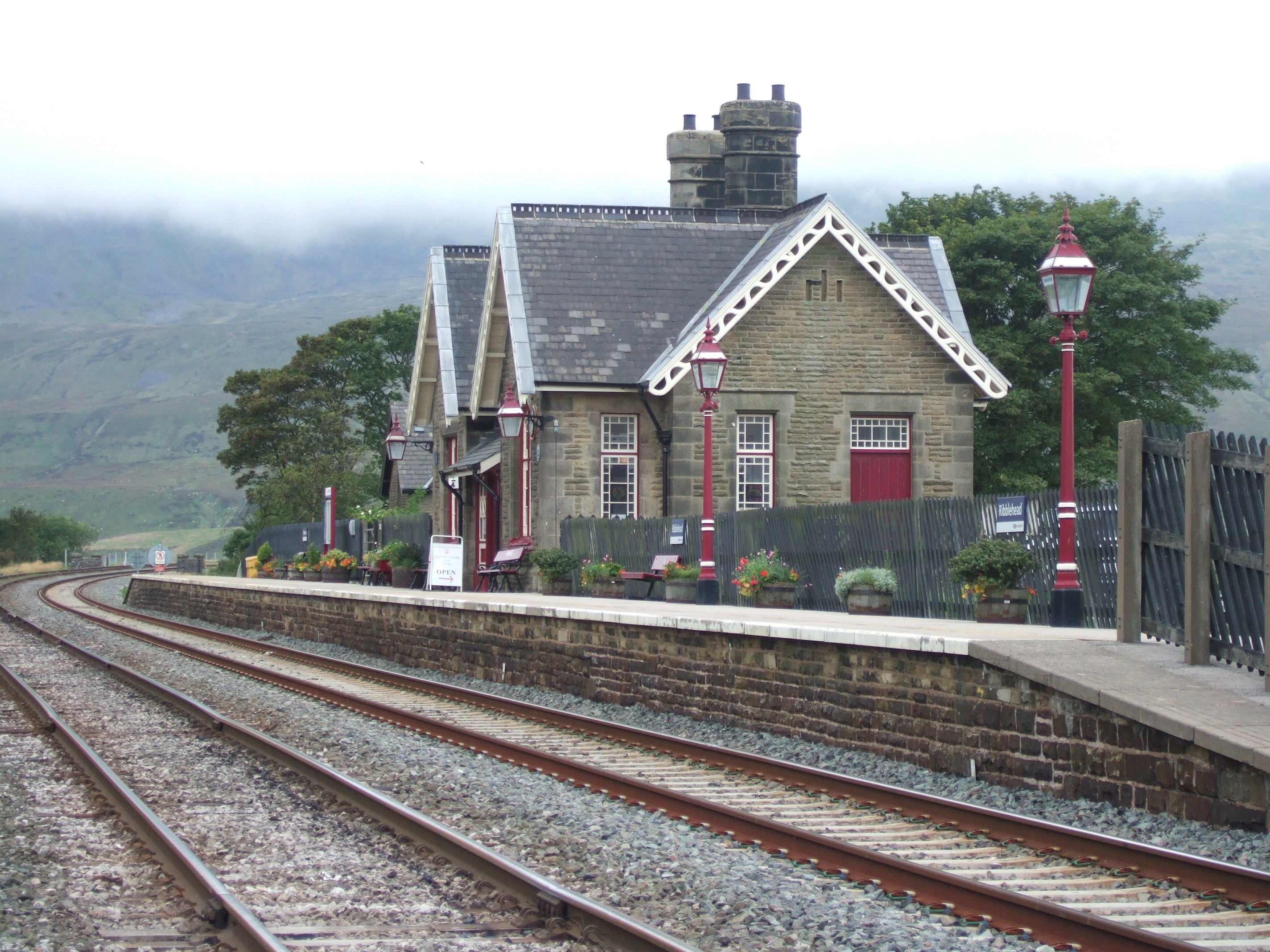 Ribblehead railway station, 25 August 2007, Leeds-bound platform